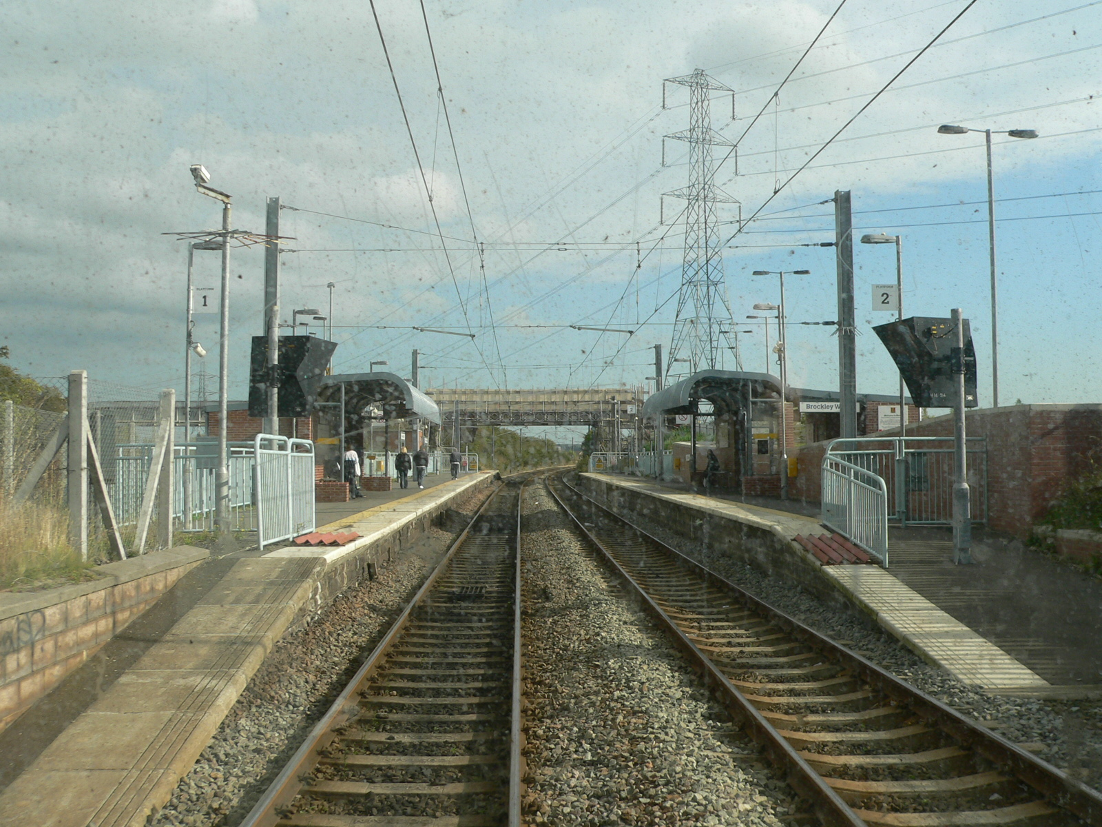 Brockley Whins station on the Tyne and Wear Metro. The view from the front of Metrocar No. 4089 as it approaches Platform 1, en route to South Hylton.